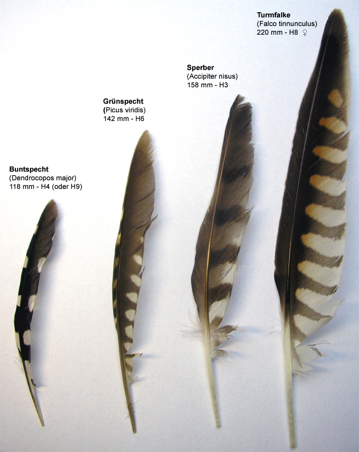 Collection of primaries: Great Spotted Woodpecker (Dendrocopos major), Green Woodpecker (Picus viridis), Sparrowhawk (Accipiter nisus), Kestrel (Falco tinnunculus)